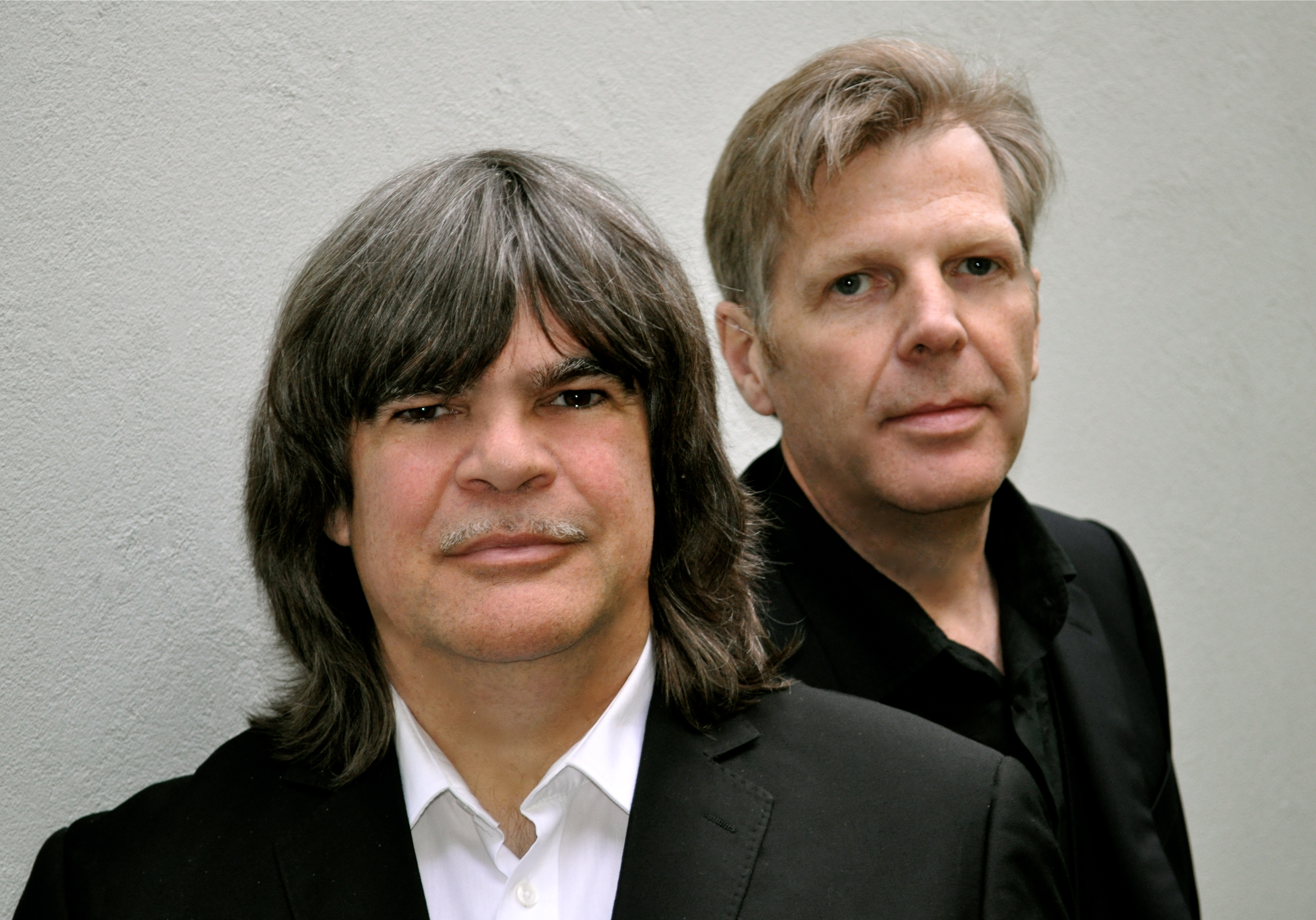 Boogie-Woogie-Brothers Axel and Torsten Zwingenberger